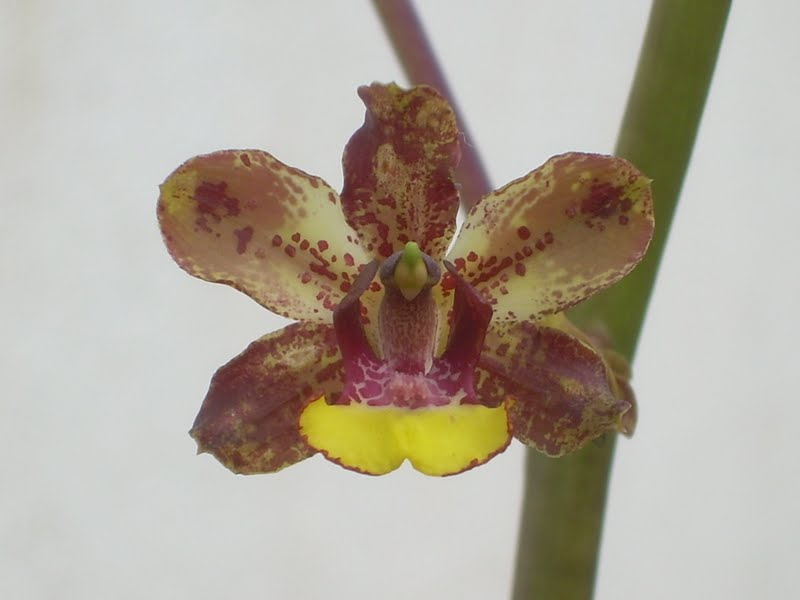 Cyrtopodium parviflorum